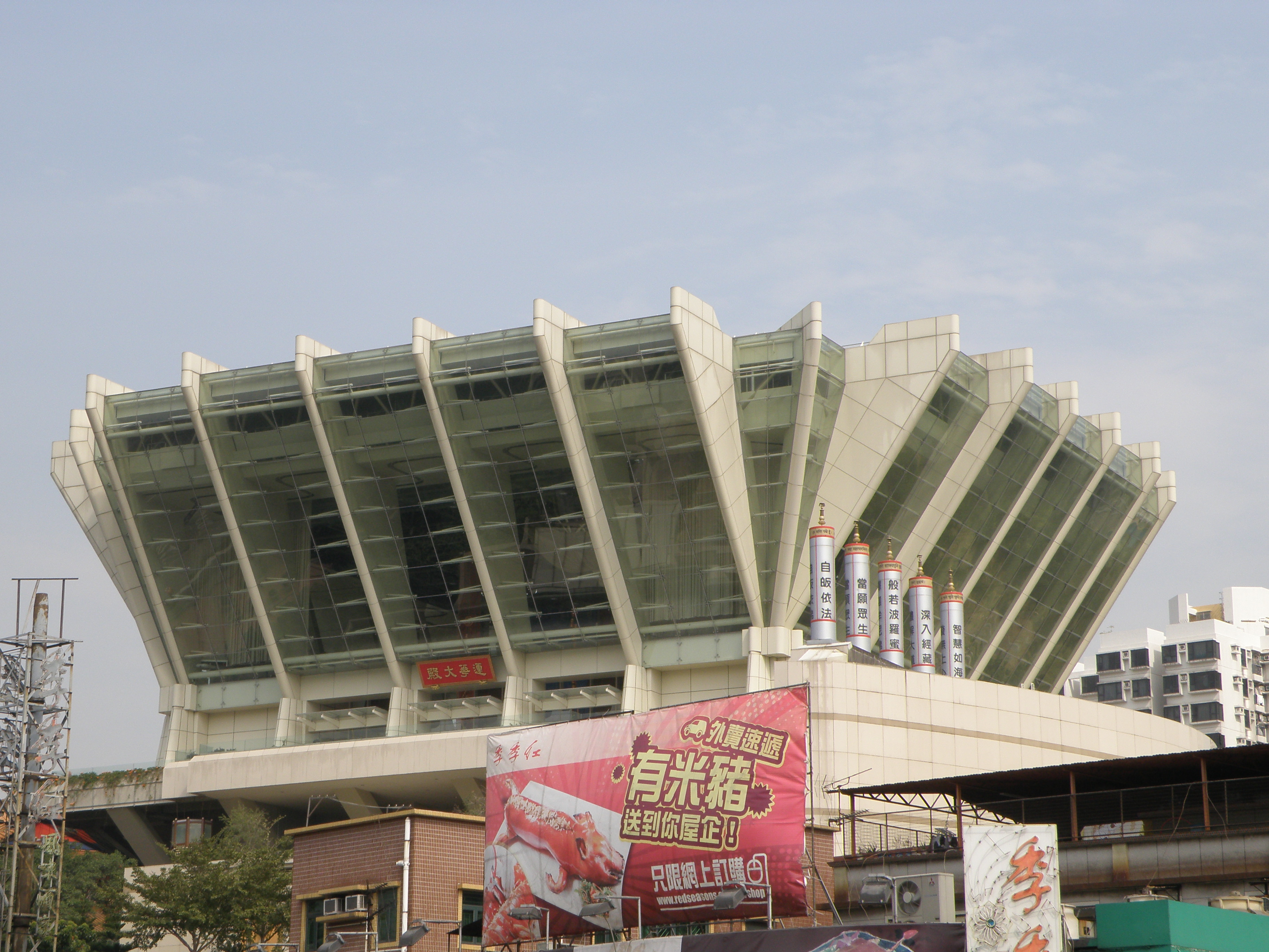 Miu Fat Buddhist Monastery in Tuen Mun, Hong Kong.